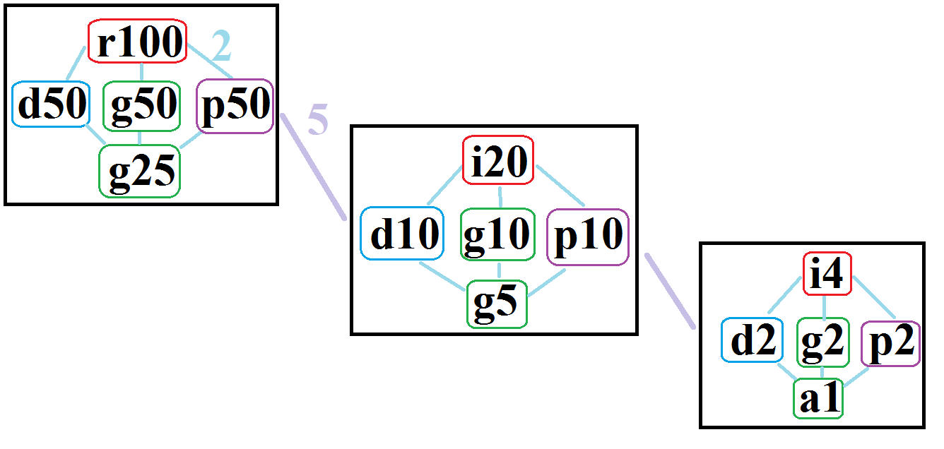 pentacontagon symmetries